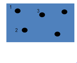 Numbered particles